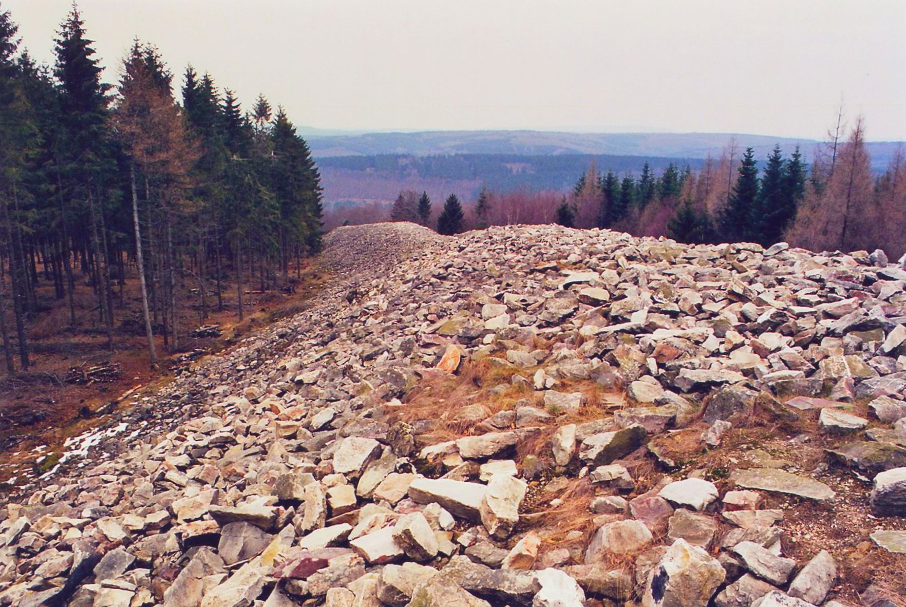 Ringwall of Otzenhausen (Saarland, Germany)